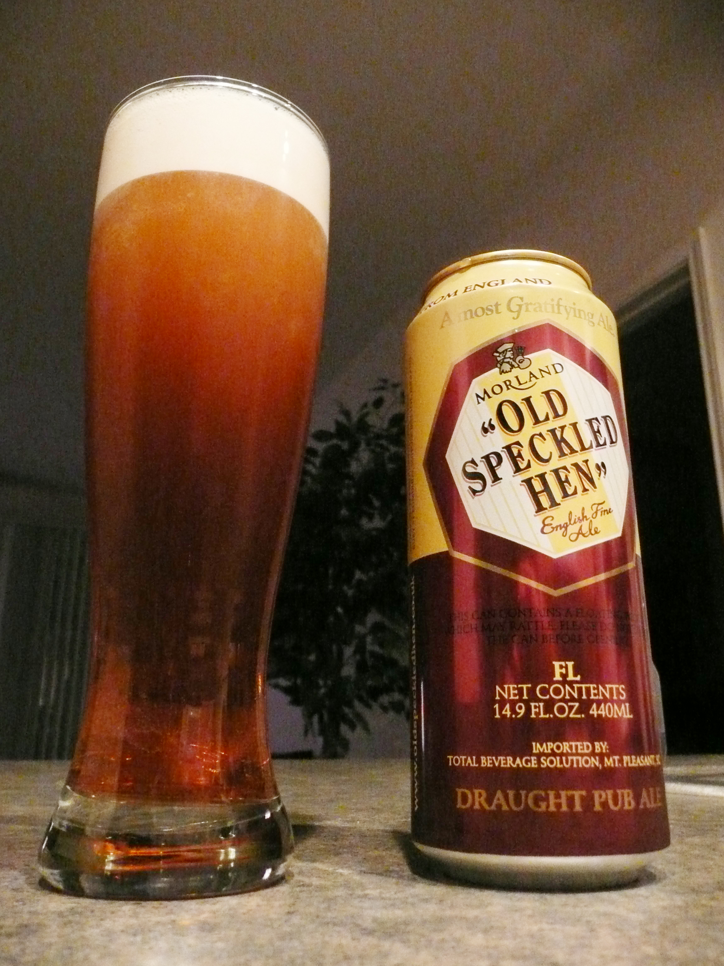 Pint of Old Speckled Hen